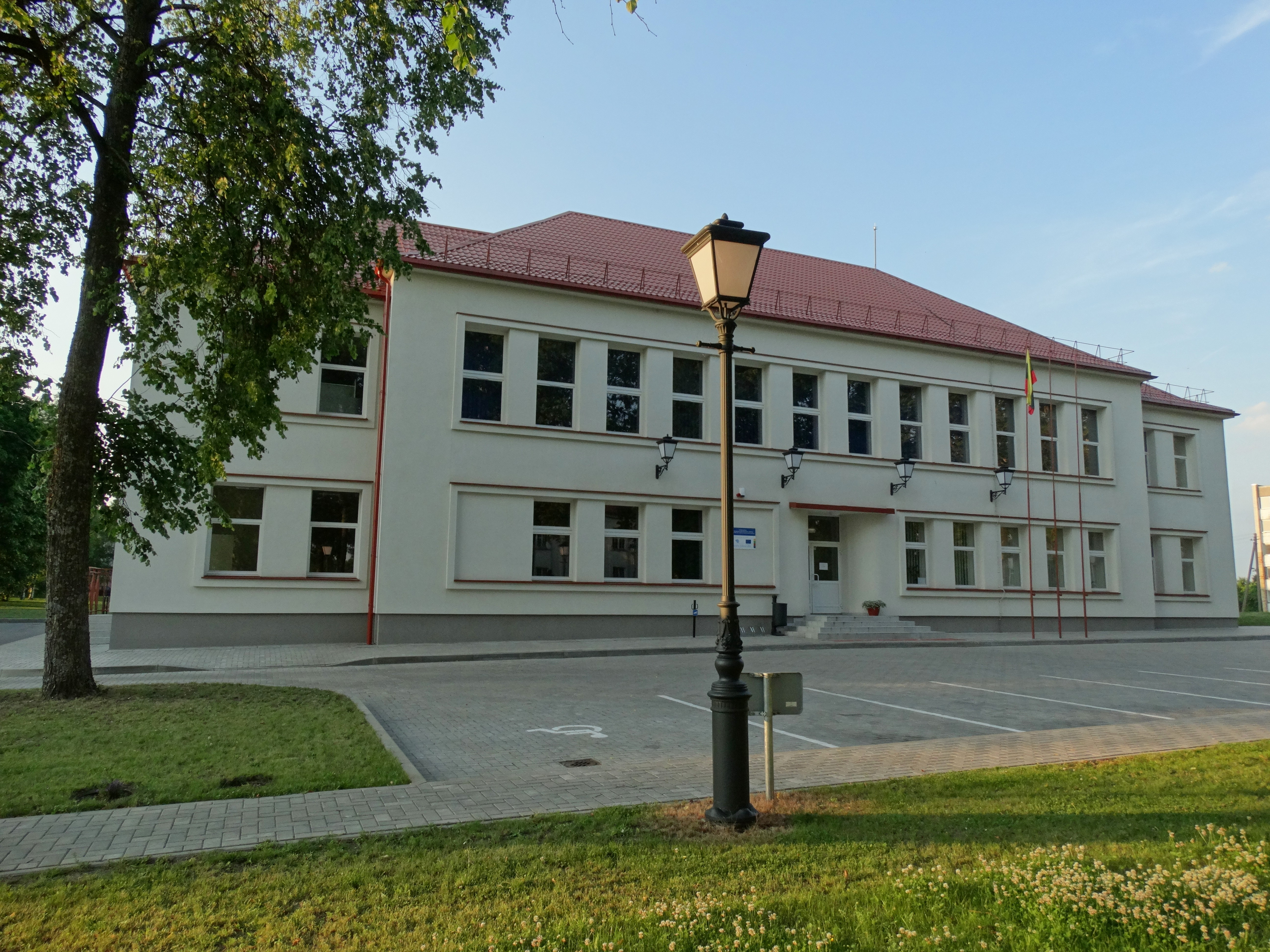 Centre of culture, Varniai, Telšiai district, Lithuania